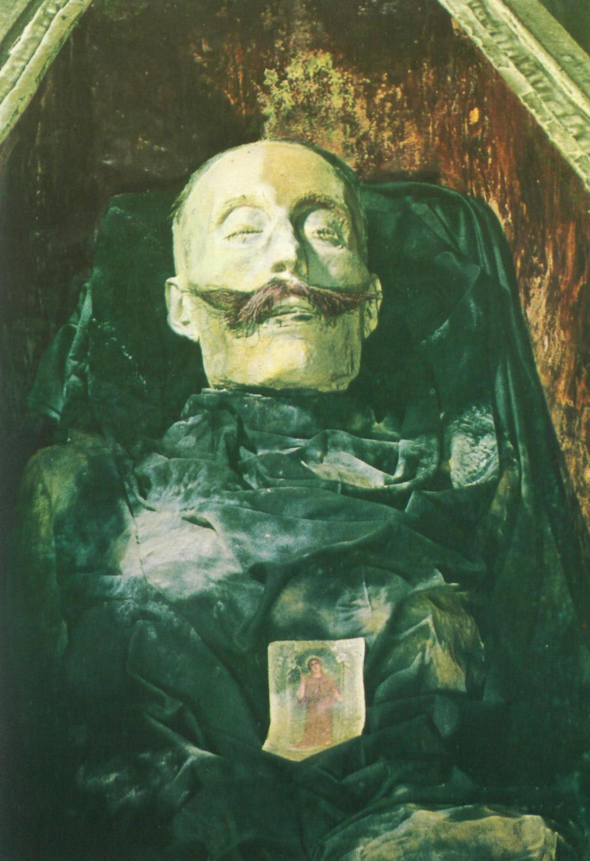 Paterniti's body in Capuchins' Catacombs